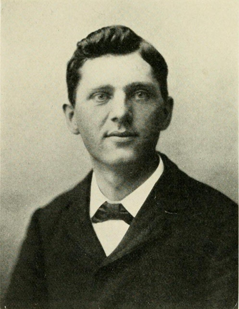 Photo portrait of Leon Czolgosz